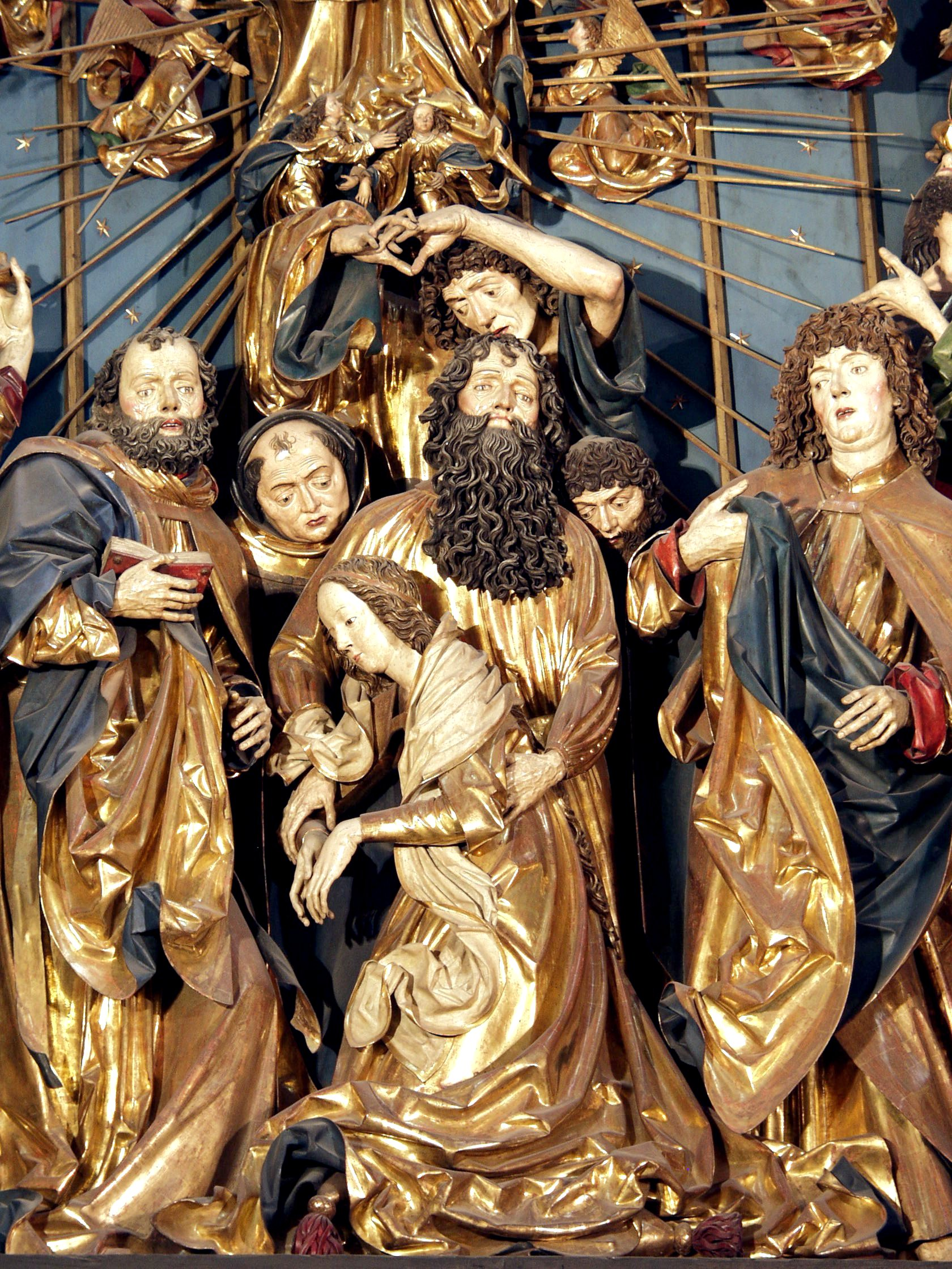 Altar of Veit Stoss, Center, St. Mary's dead, St. Mary's Church, Krakow, Poland